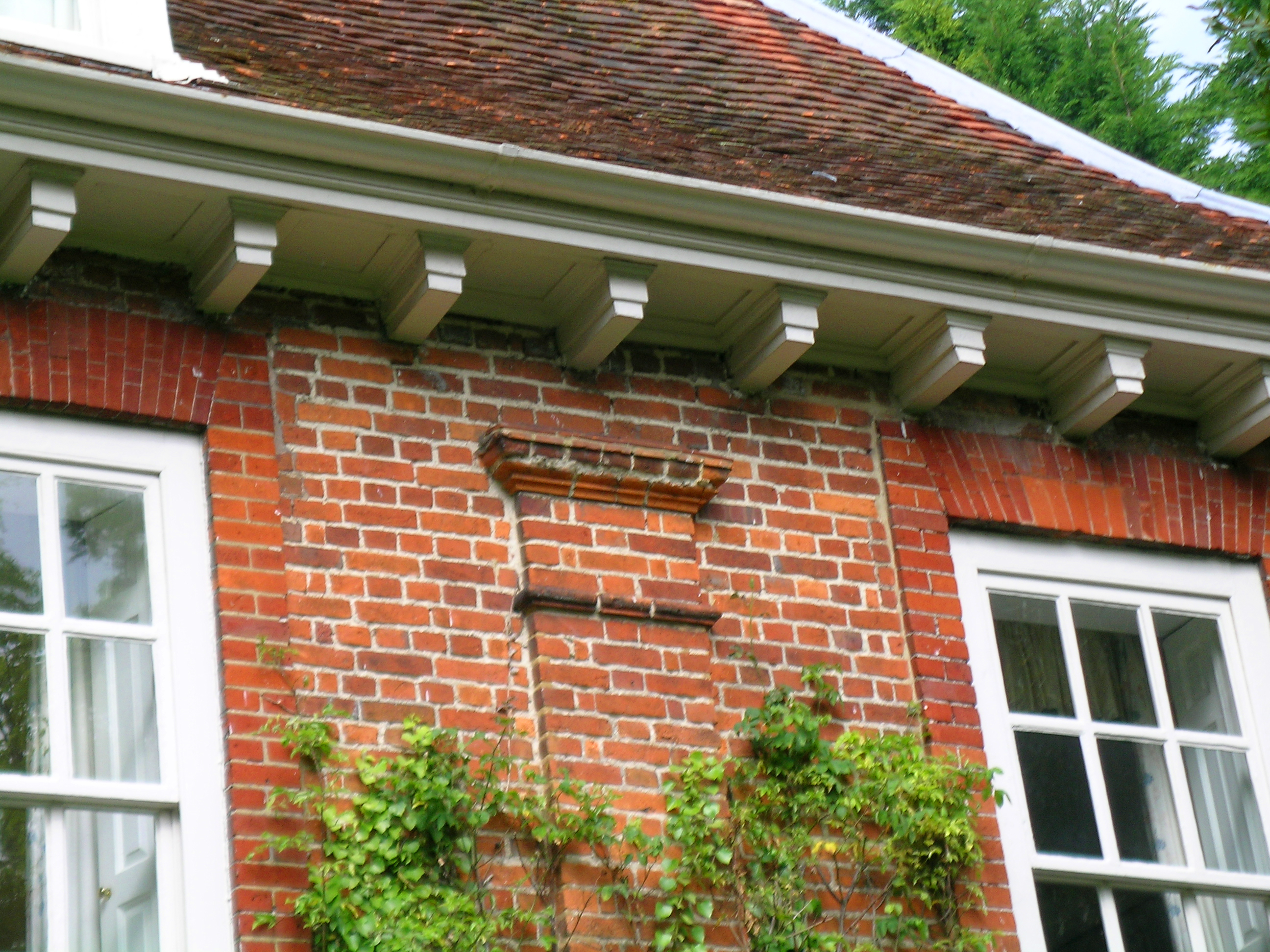 Princes Risborough Manor House detail of capital of 17C brick pilaster